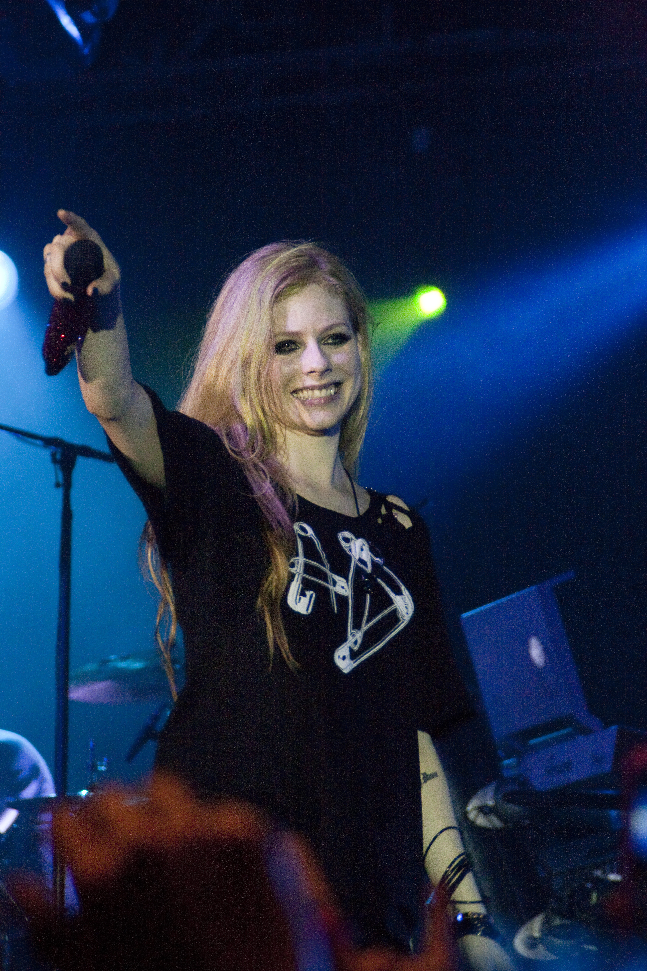 Avril Lavigne performing during the Kartika Expo at the Balai Kartini in Jakarta, Indonesia, on her Black Star Tour. This photo was taken on 11 May 2011 with a Canon EOS 1000D.